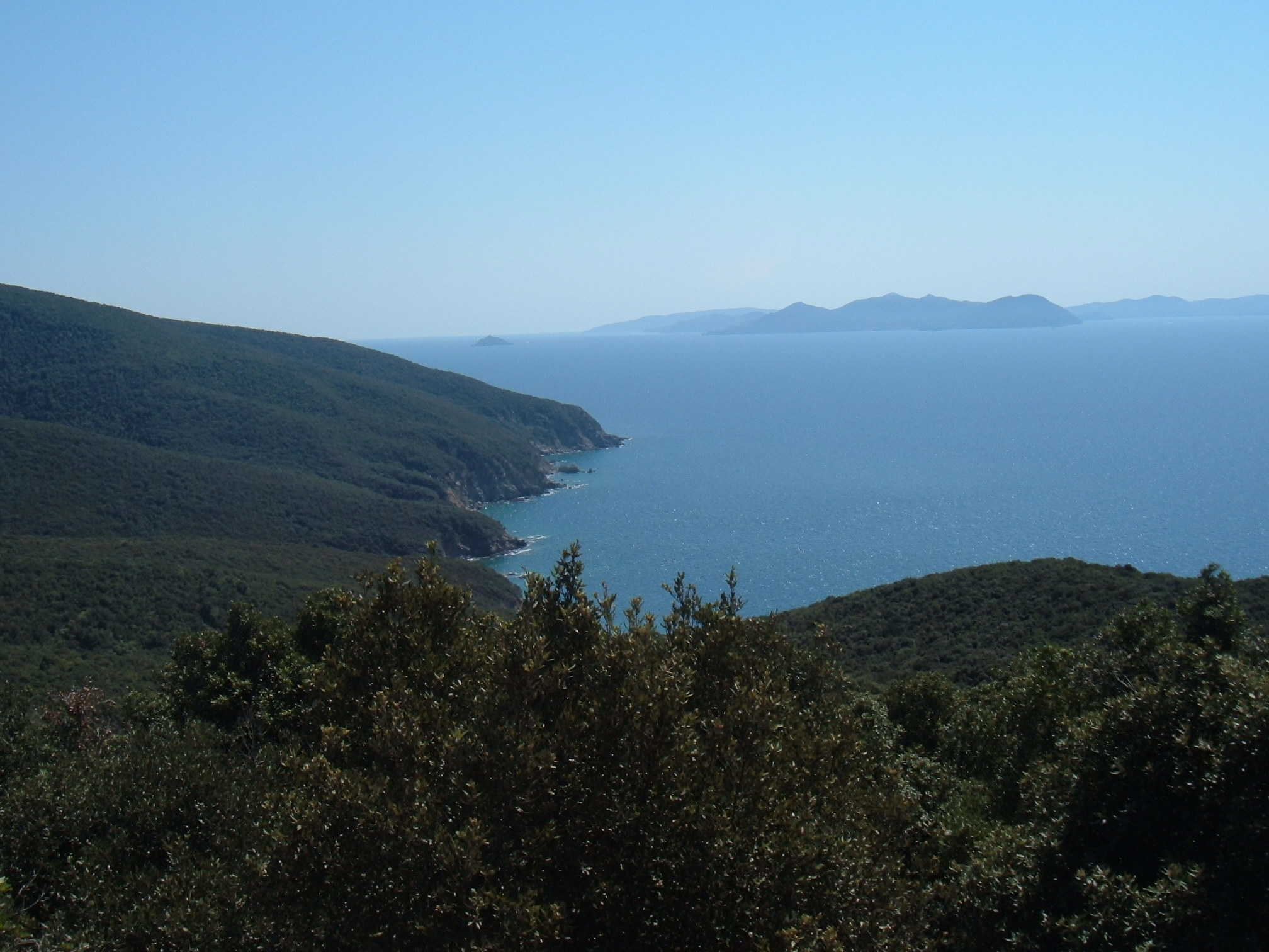 Acropolis of Populonia (Piombino, Italy). During the walk you can see th Elba island and Capraia